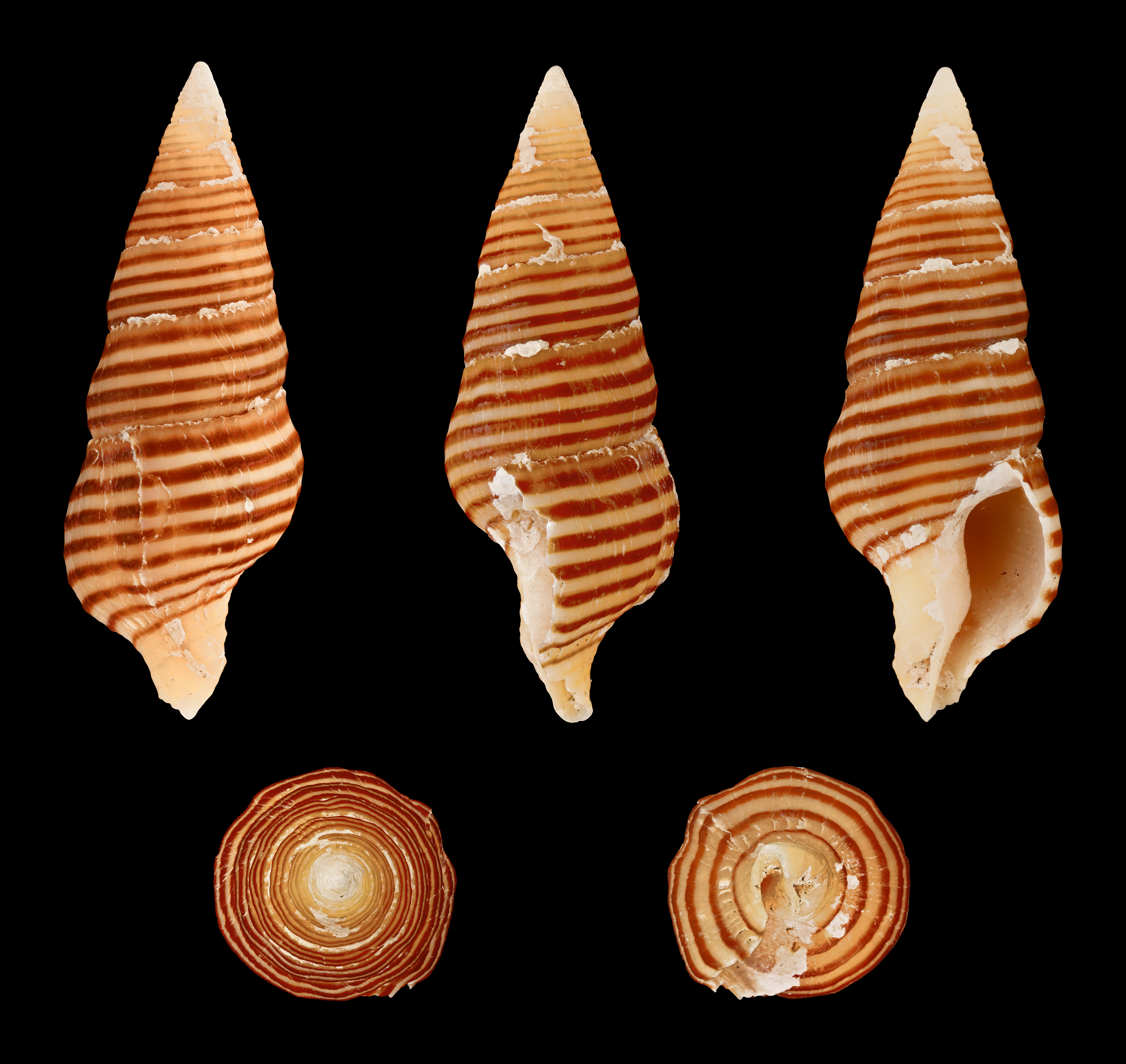 Tower Latirus; Length 4.3 cm; Originating from the Red Sea, Hurghada, Egypt; Shell of own collection, therefore not geocoded. Dorsal, lateral (right side), ventral, back, and front view.